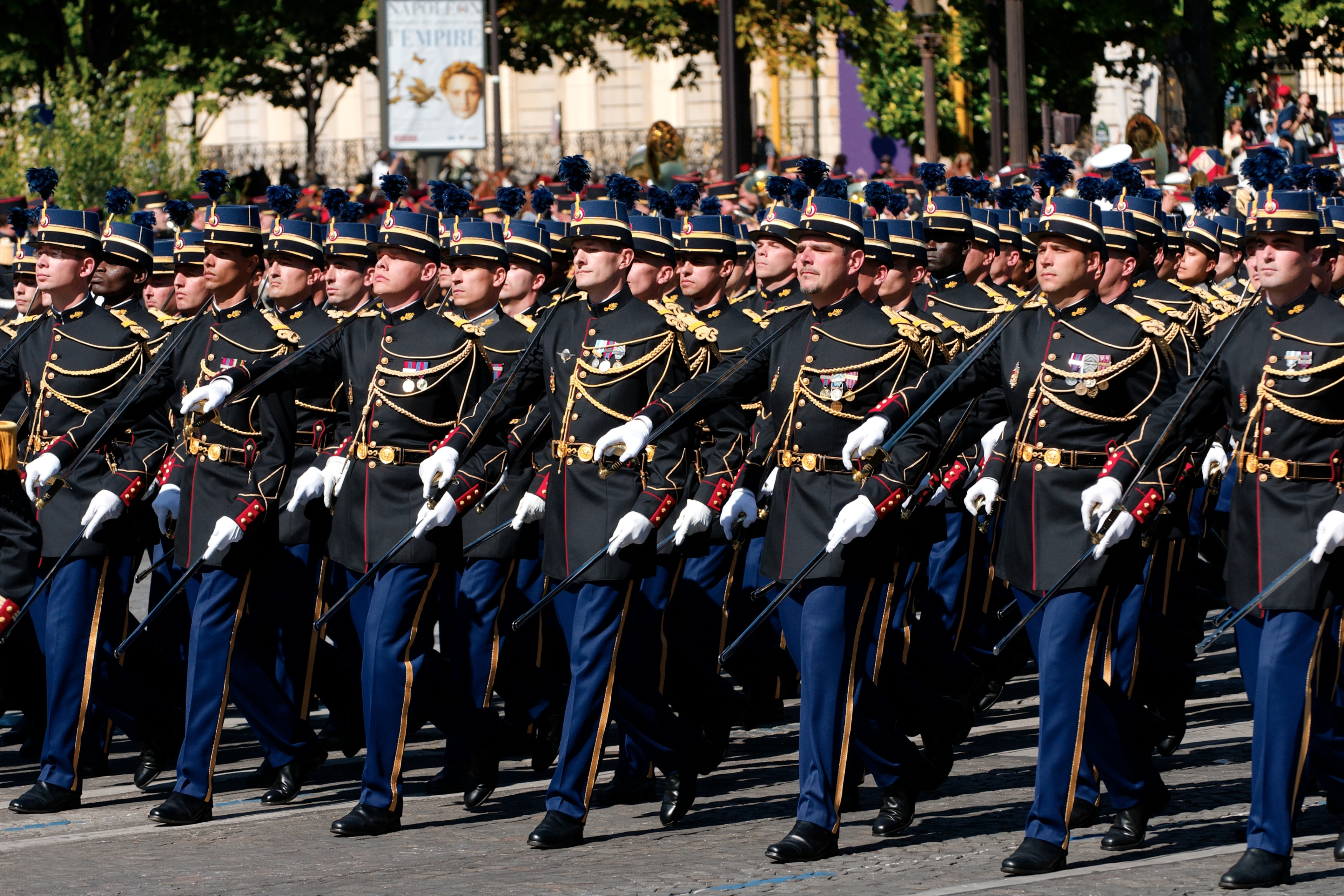 Cadets of the École des officiers de la gendarmerie nationale, Bastille Day 2008 military parade on the Champs-Élysées, Paris.